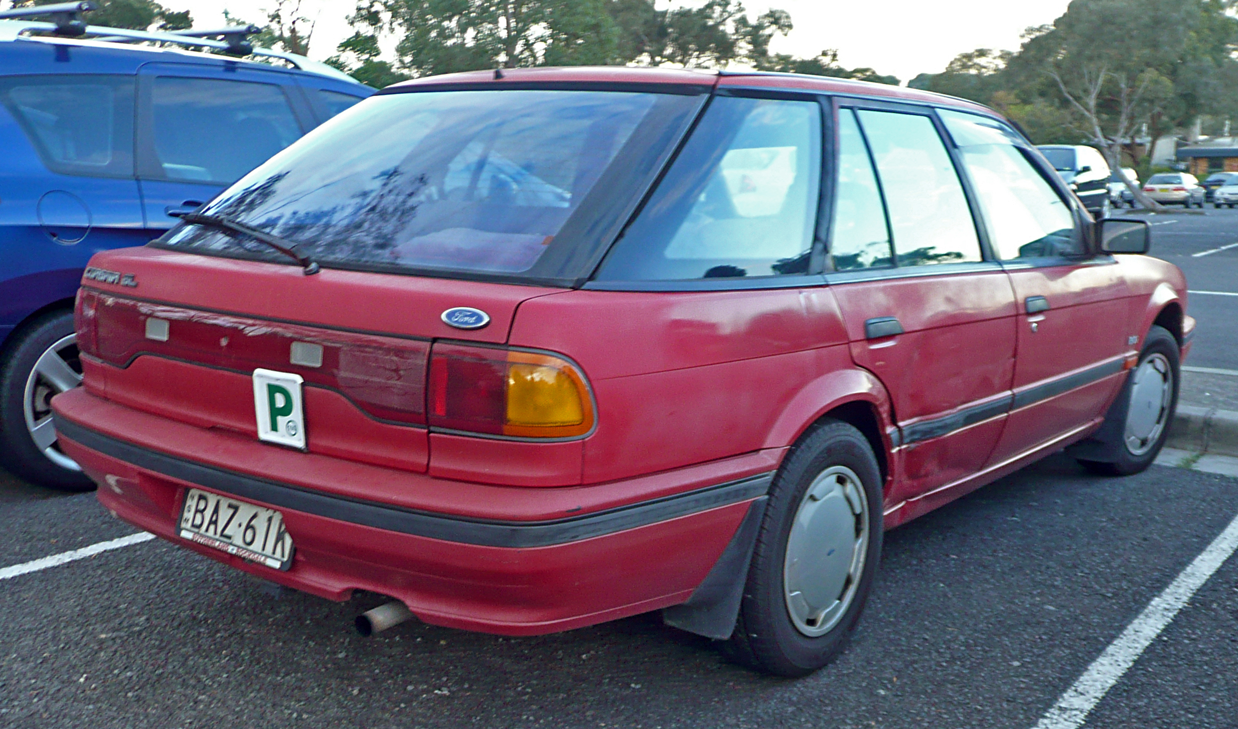 1990 Ford Corsair (UA) GL liftback. Photographed in Sutherland, New South Wales, Australia.